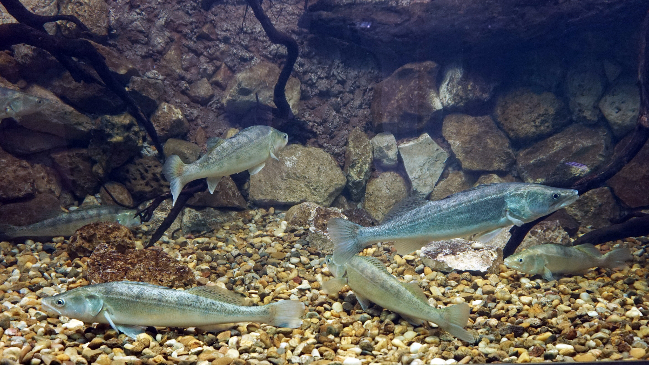 Sander lucioperca in the Ecomuseum Rousse.This photograph was taken with a Sony ILCE-5000